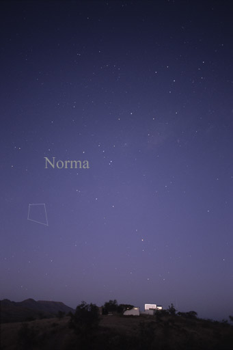 Photography of the constellation Norma, the square